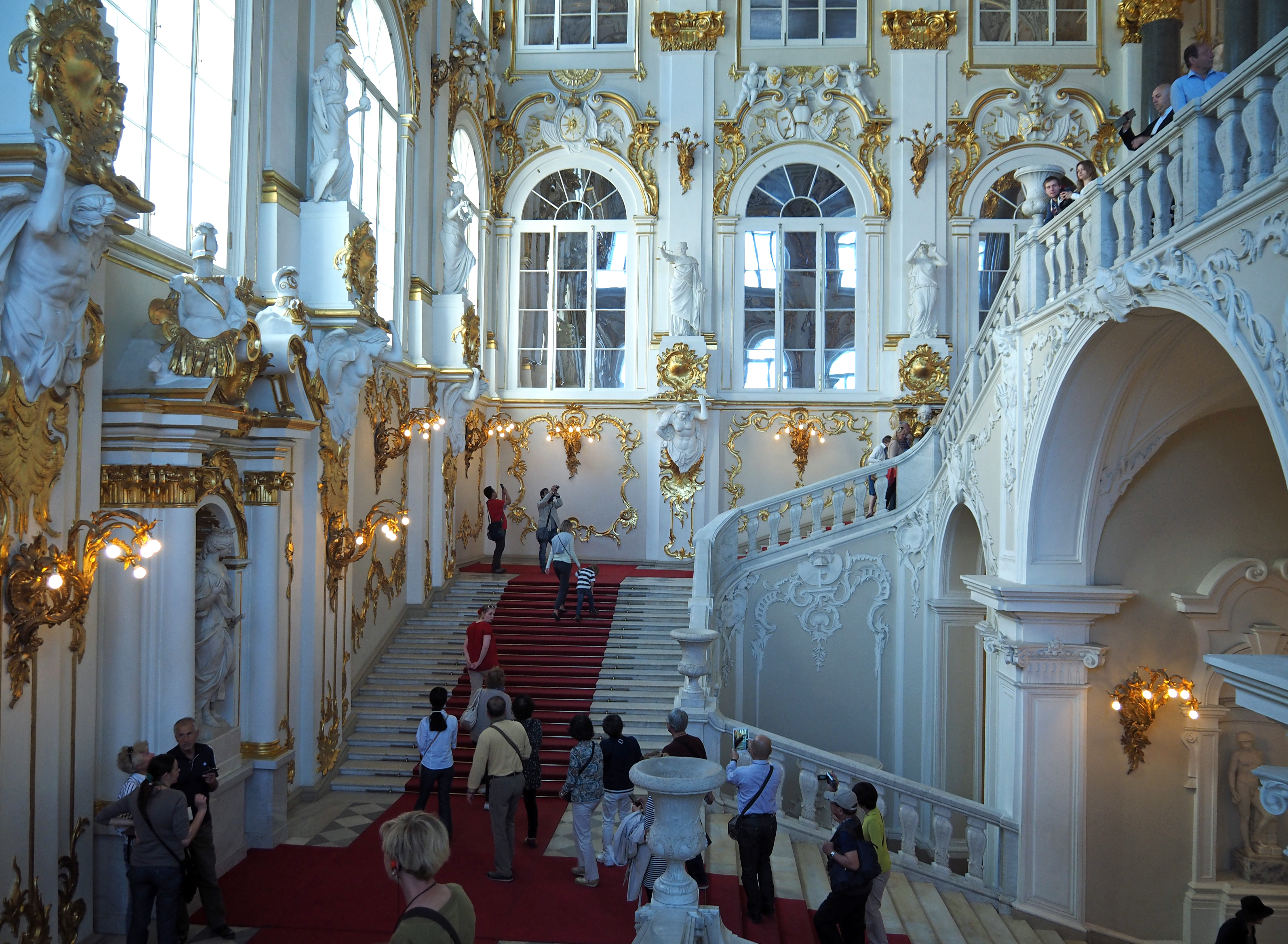 Jordan Staircase of the Winter Palace Saint Petersburg